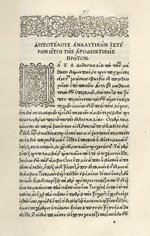 Aldo Manuzio's Aristotheles (1495-1498).